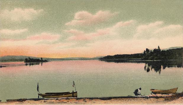 View of Silver Lake, Madison, NH; from a c. 1906 postcard published by G. W. Morris, Portland, Maine.